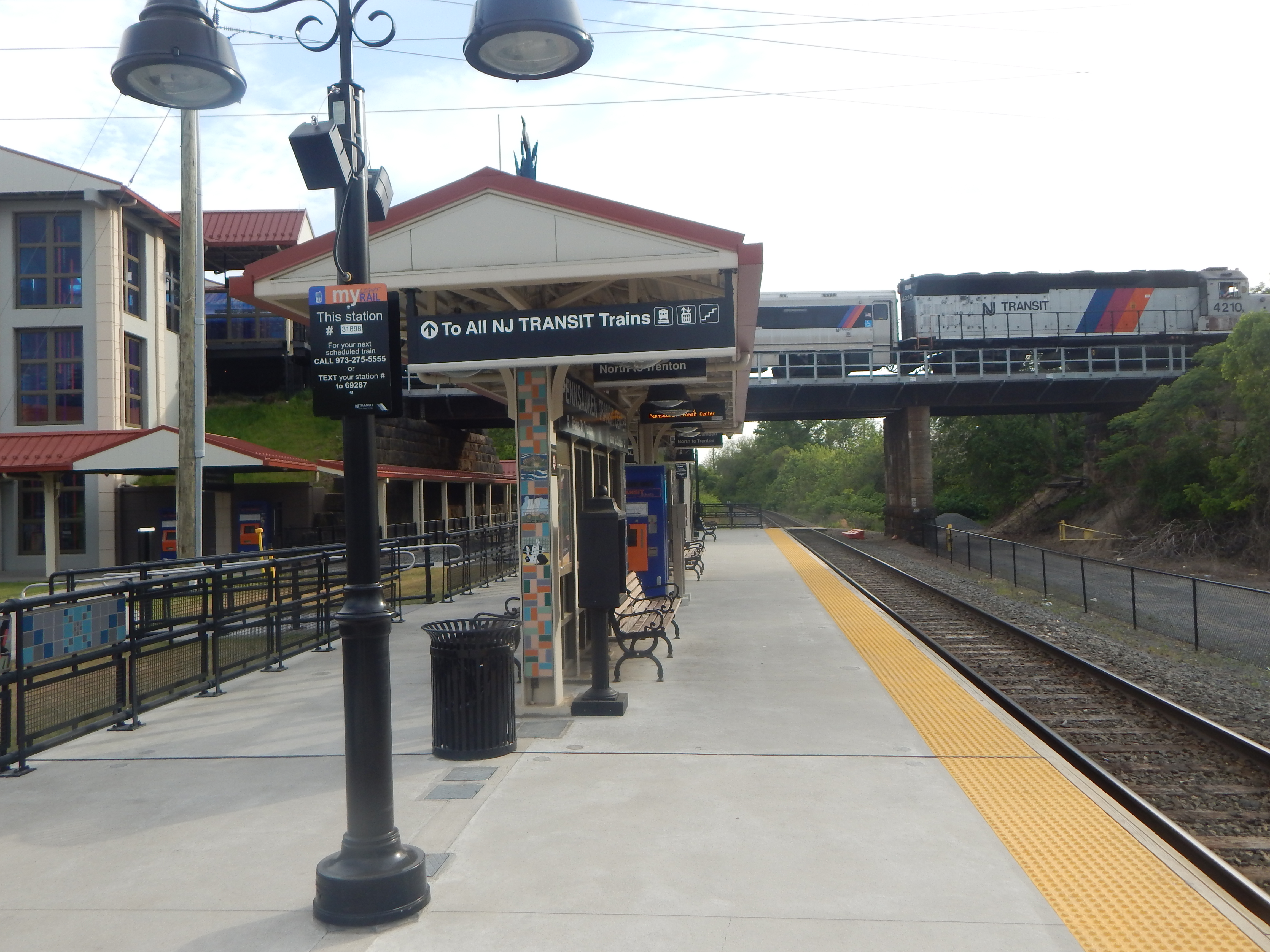 An Atlantic City Line train at Pennsauken Transit Center in May 2015, viewed from the River Line platform below